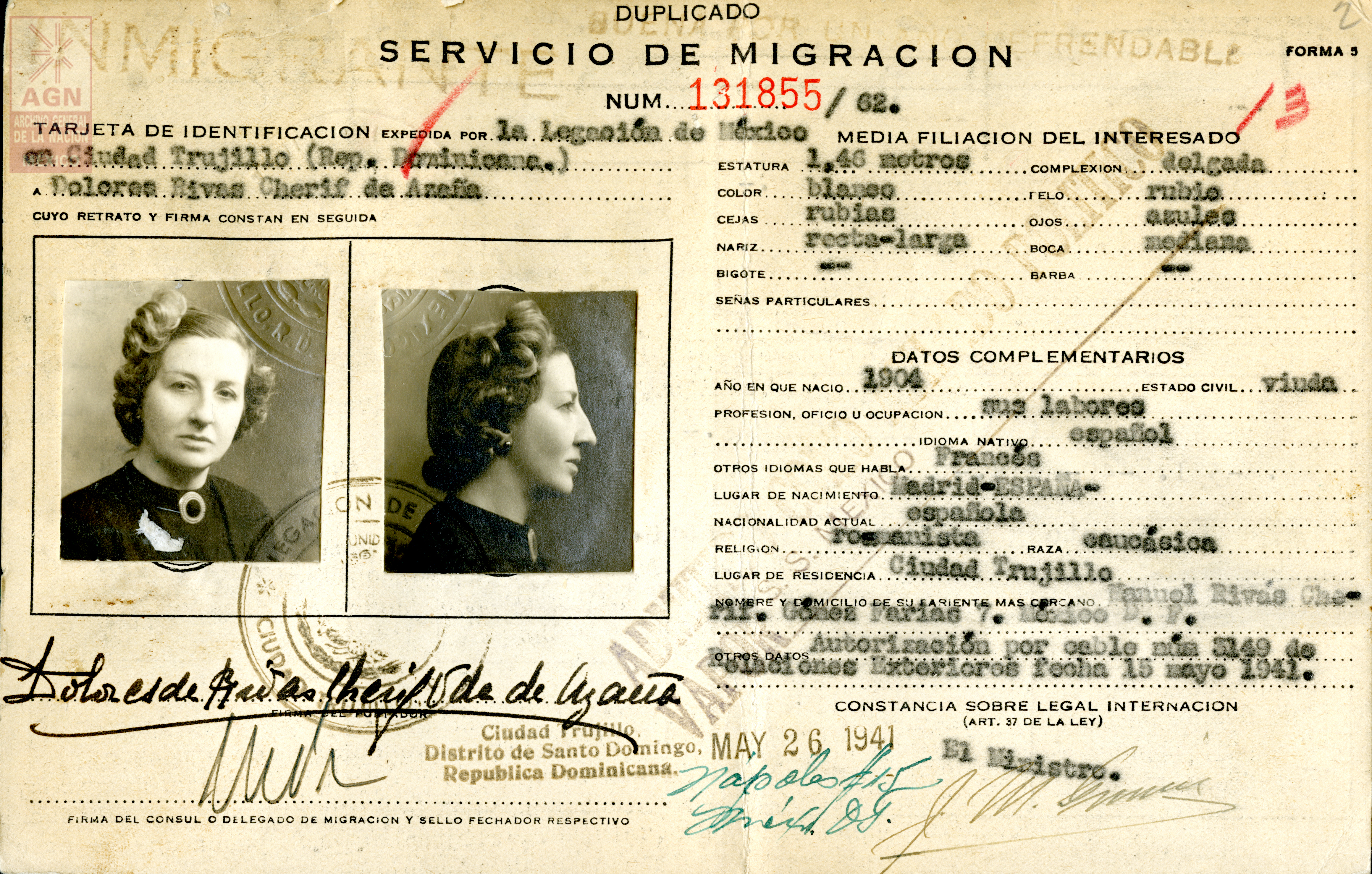 Personal identity record of Dolores Rivas Cherif. México, 1941